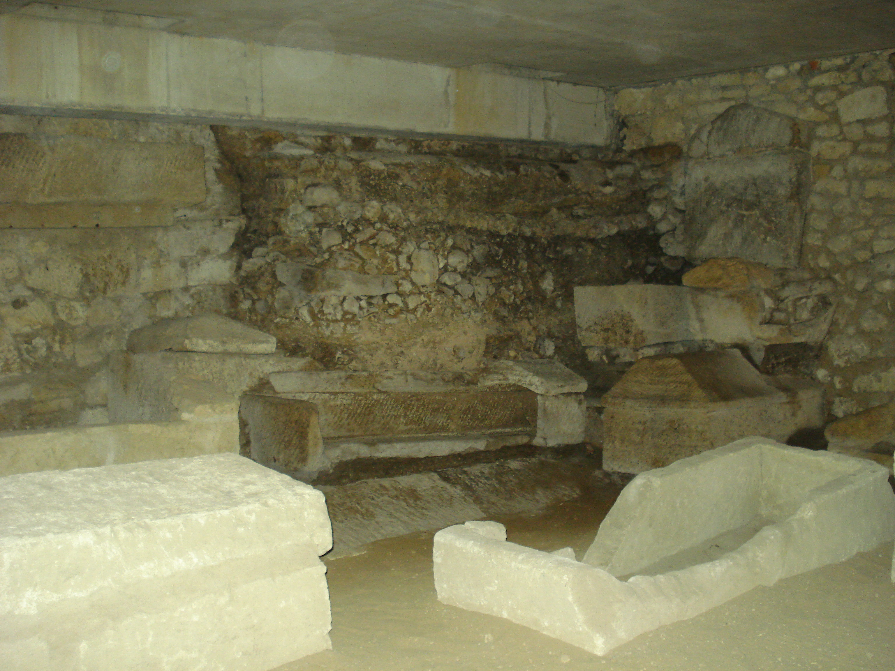 Bordeaux - July 2012